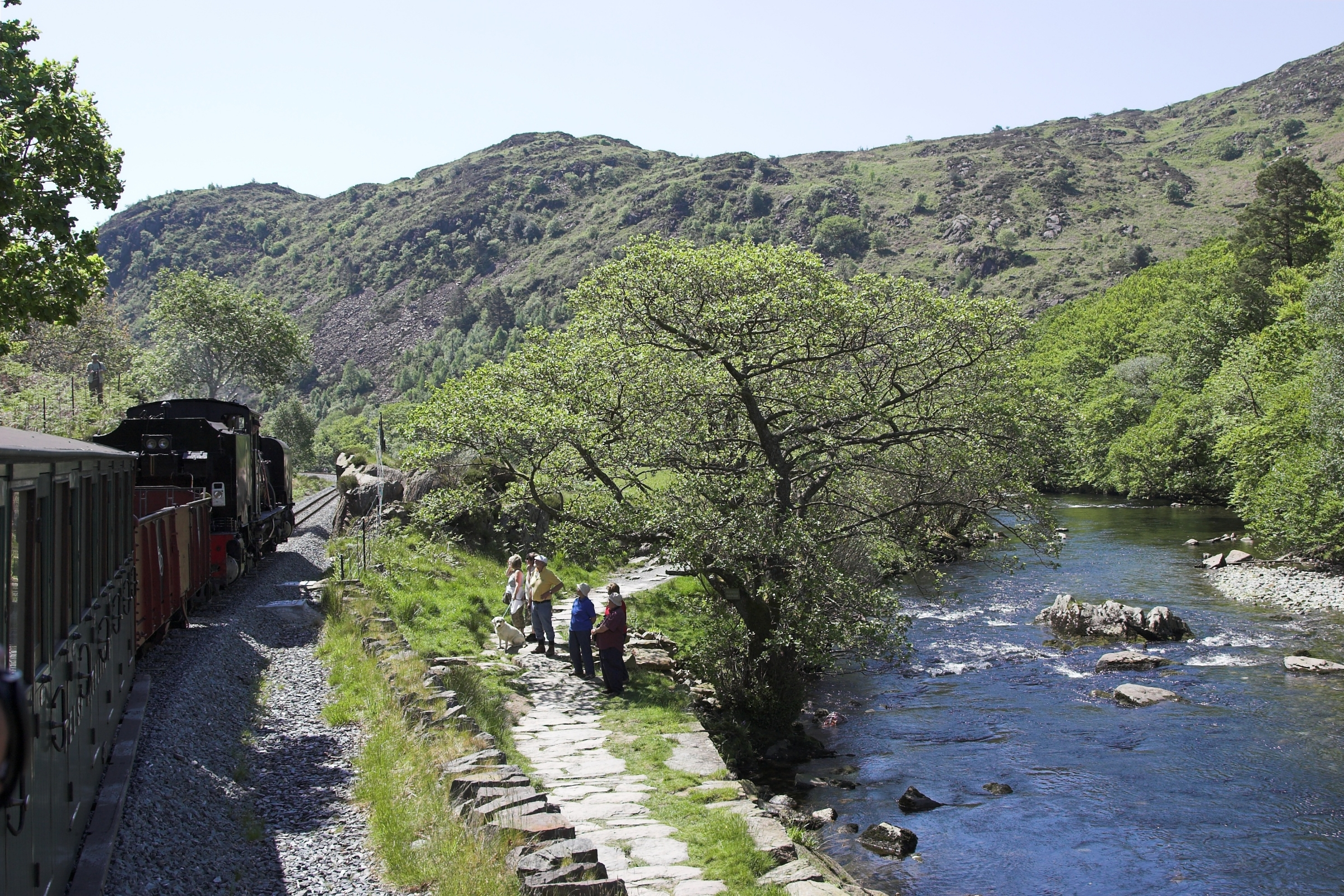 A train of the Welsh Highland Railway entering the Aberglaslyn Pass section, seen from the train. This picture was taken from the open observation car.